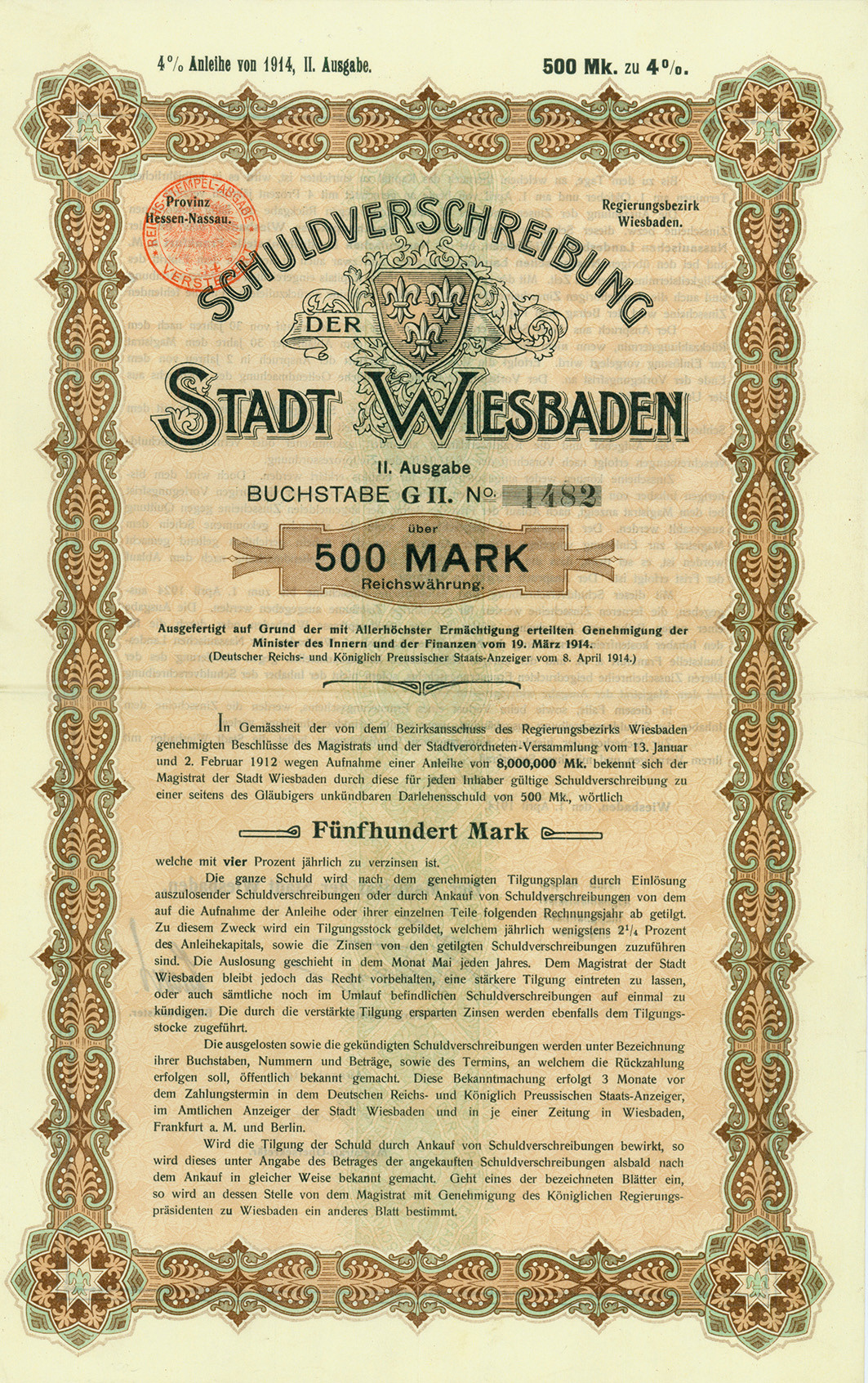 Bond of the City of Wiesbaden, issued 1. April 1914